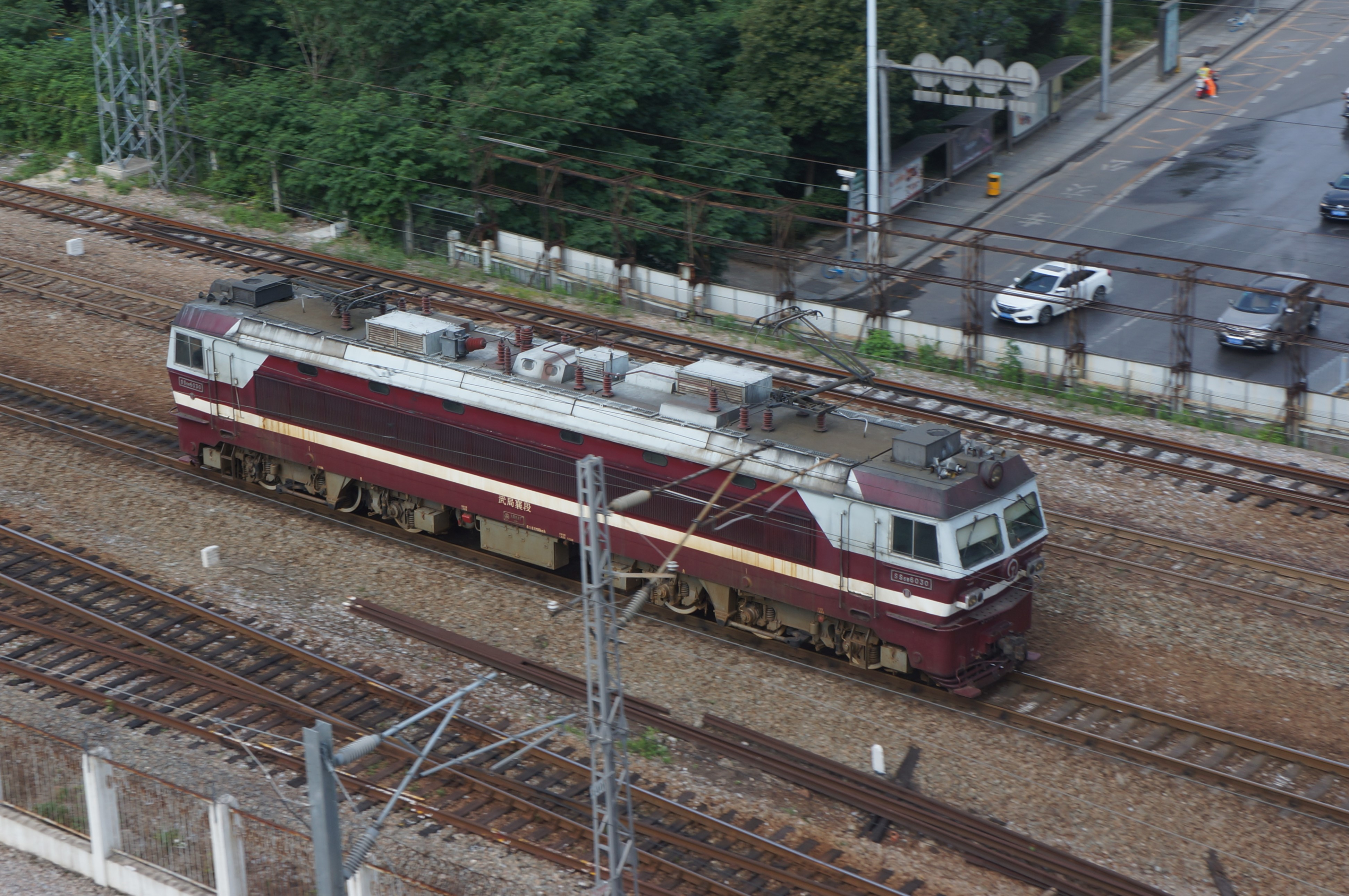 201906 SS6B-6030 at Changshadong Station (2)